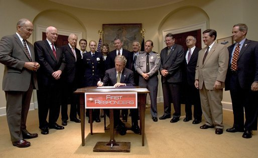 This is a White House photo, downloaded from the White House website at